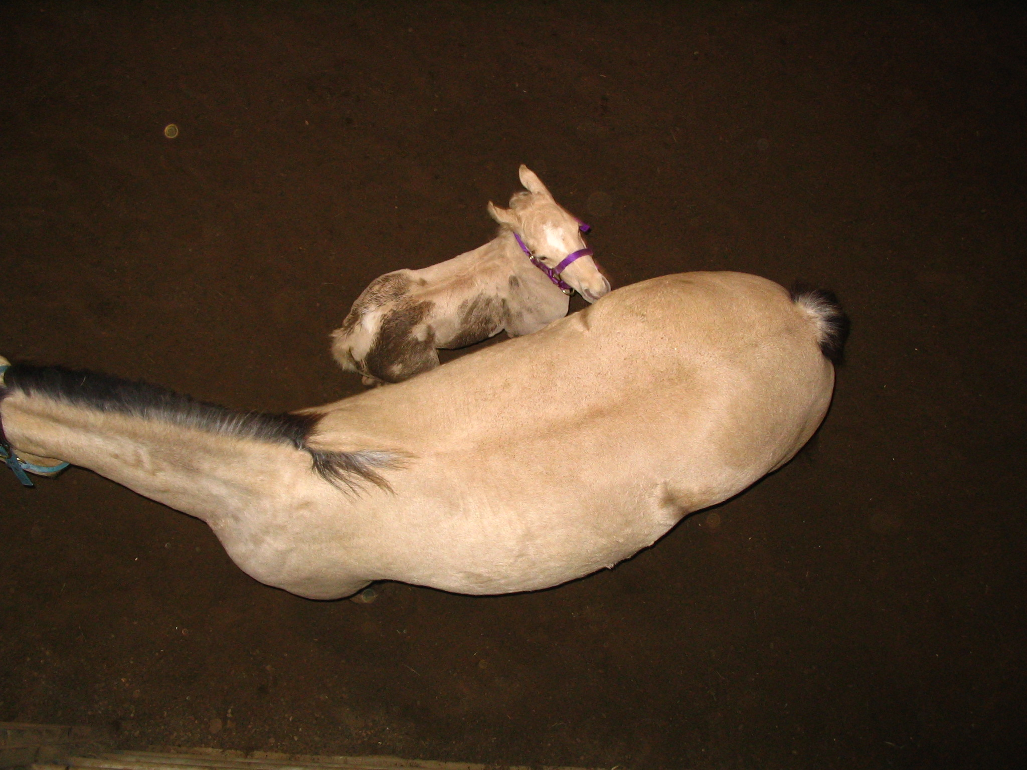 The colt pictured, Bear, was two weeks old in this picture. I release all rights to this image and grant it into the public domain. Attribution is not required.